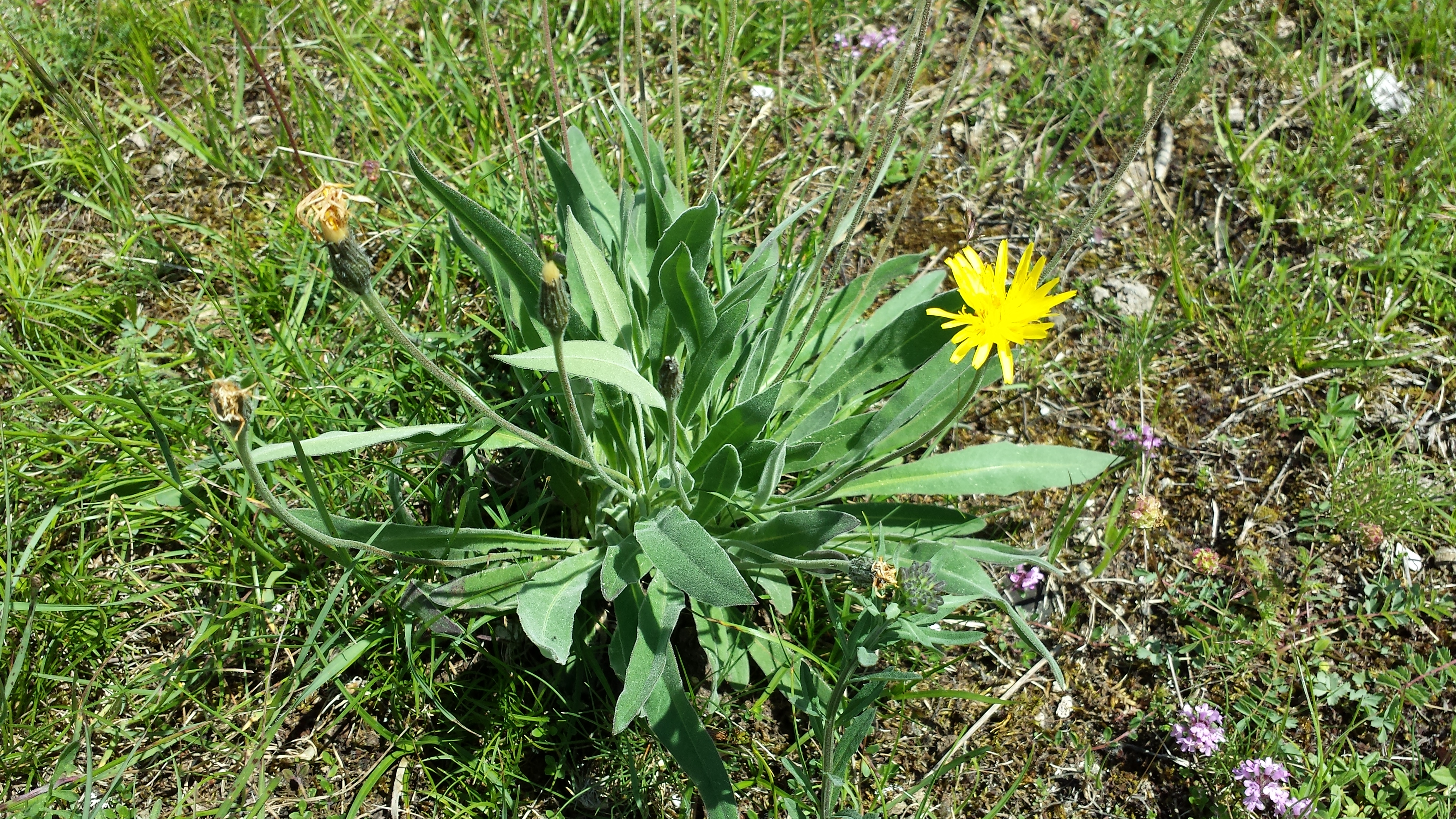 Habitus Taxon: Leontodon incanus (sensu Fischer et al. EfÖLS 2008 ISBN 978-3-85474-187-9; det. M. A. Fischer 2013-05-18) Location: Brunn an der Schneebergbahn, district Wiener Neustadt, Lower Austria - ca. 300 m a.s.l. Habitat: shallow dry grassland